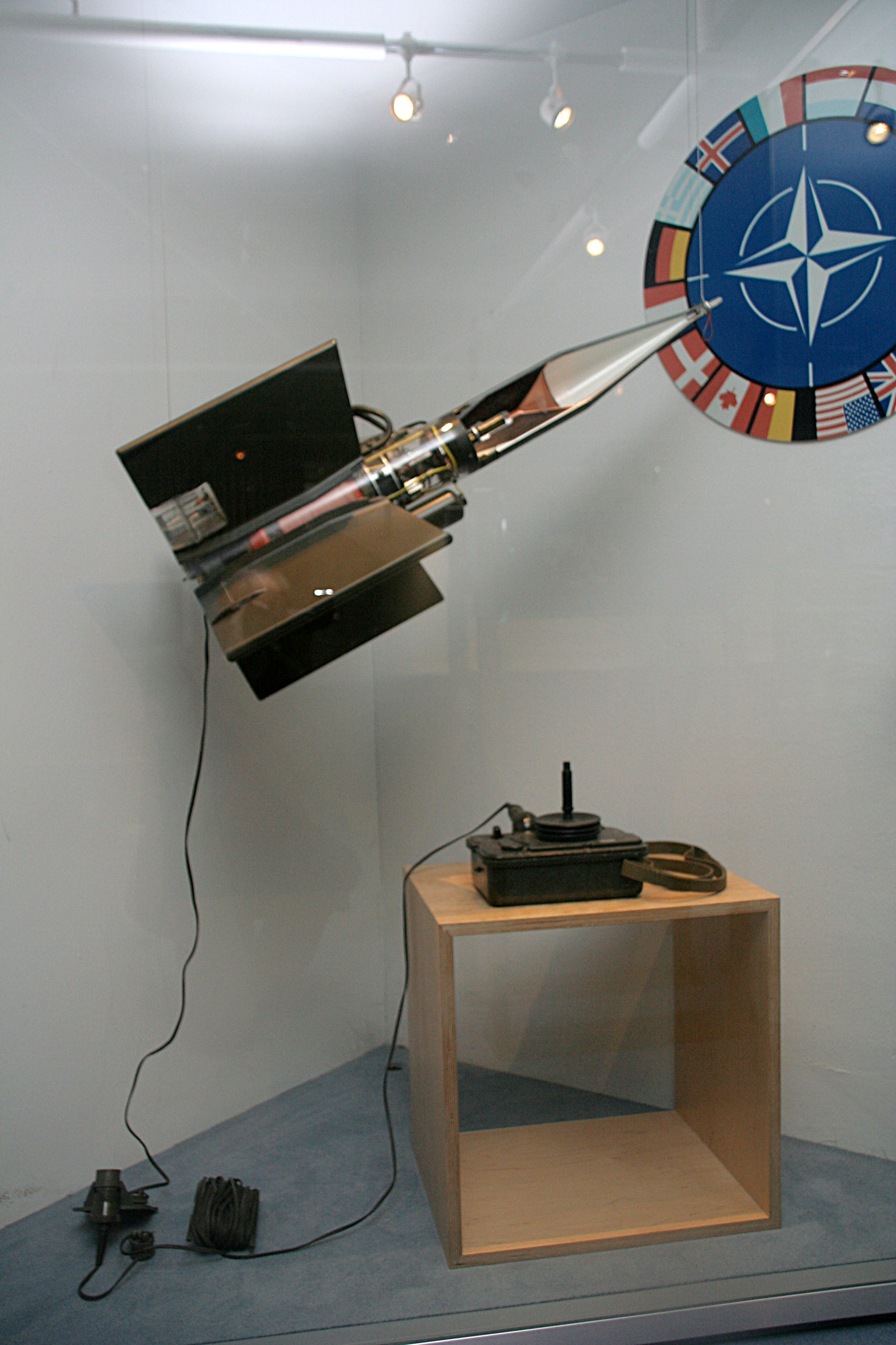 MBB COBRA guided anti tank missile from 1954 Photographed in Deutsches Museum Bonn